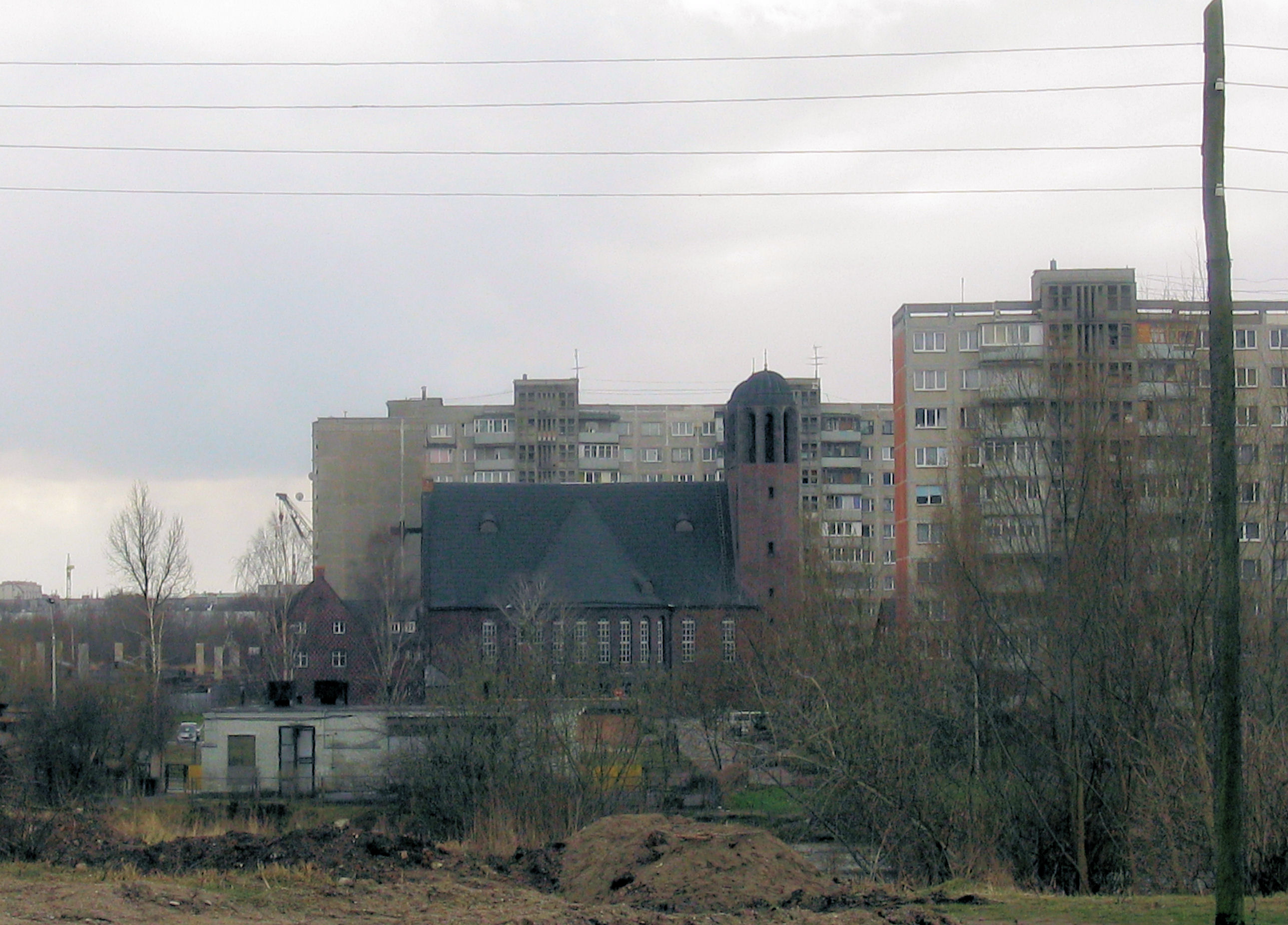 Former German Kreuzkirche in Kaliningrad. View from Moskovsky Prospekt.